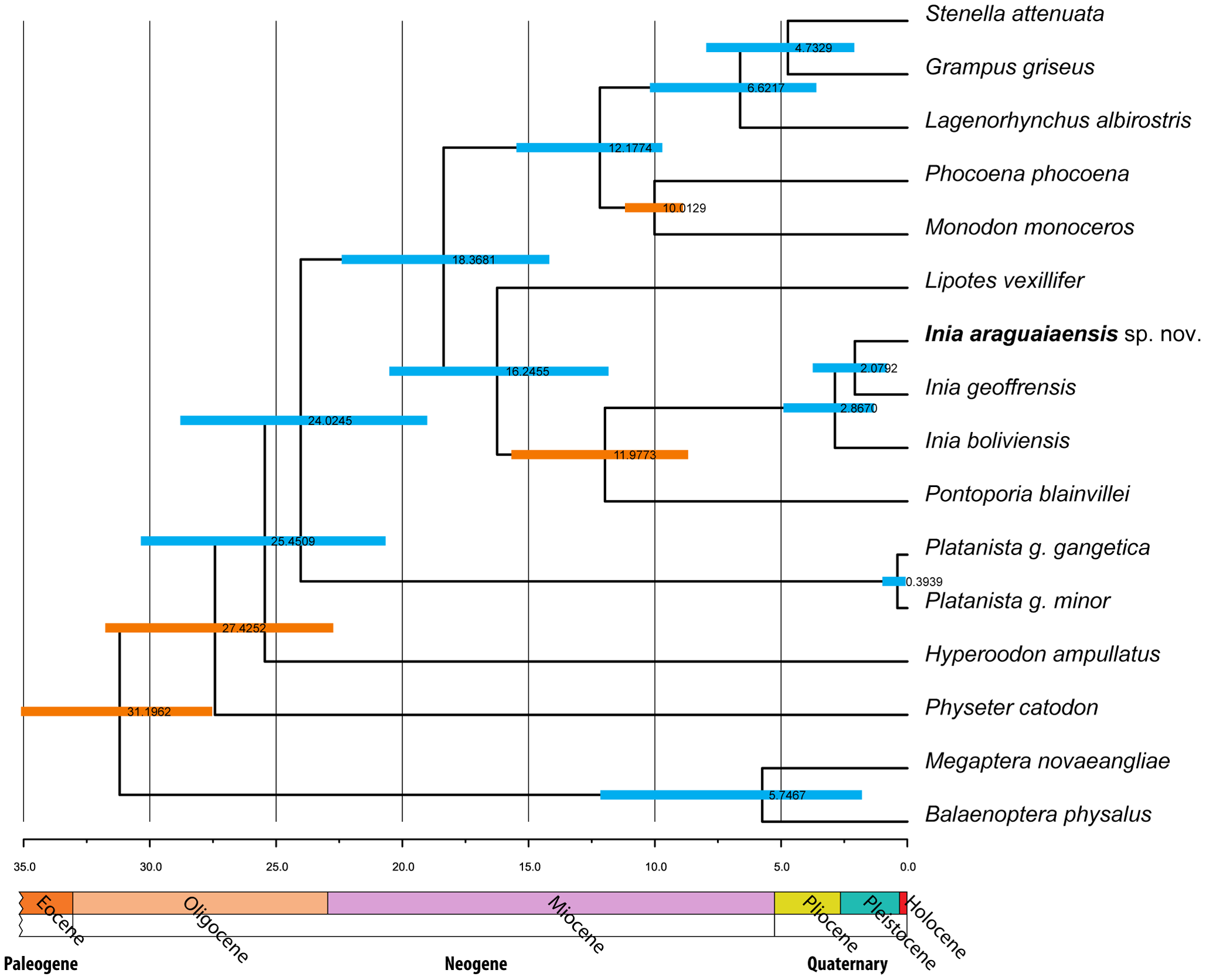 Bayesian phylogenetic analysis of Inia araguaiaensis within Cetacea and divergence time estimation in BEAST 1.7.1 [45] using the complete mitochondrial DNA cytochrome b gene. Four independent fossil calibration points (indicated as orange bars) were used. Numbers at nodes represent estimates of divergence times with highest posterior probability, while bars around each divergence time estimate represent 95% highest posterior density of the estimate.